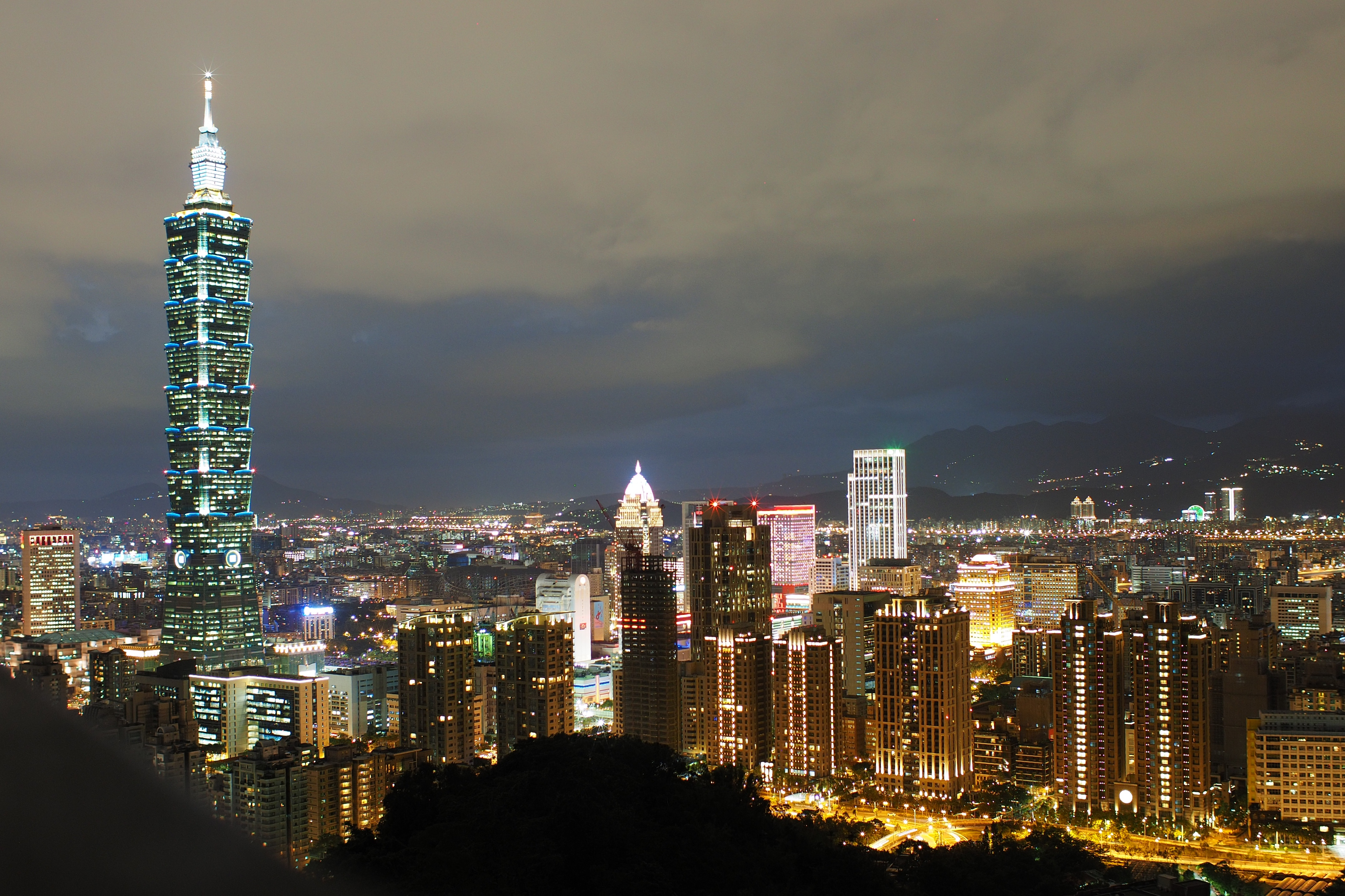 Skyline of Taipei City